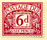 GB 6d Postage Due Stamp Scanned from personal collection Jeff Knaggs 15:14, 27 Nov 2004 (UTC)